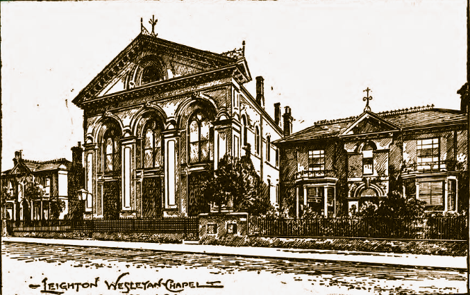 Leighton Buzzard Methodist Chapel in 1895